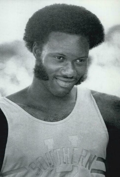 1971 Press Photo Rod Milburn Southern University Breaks AAU Hurdles Record